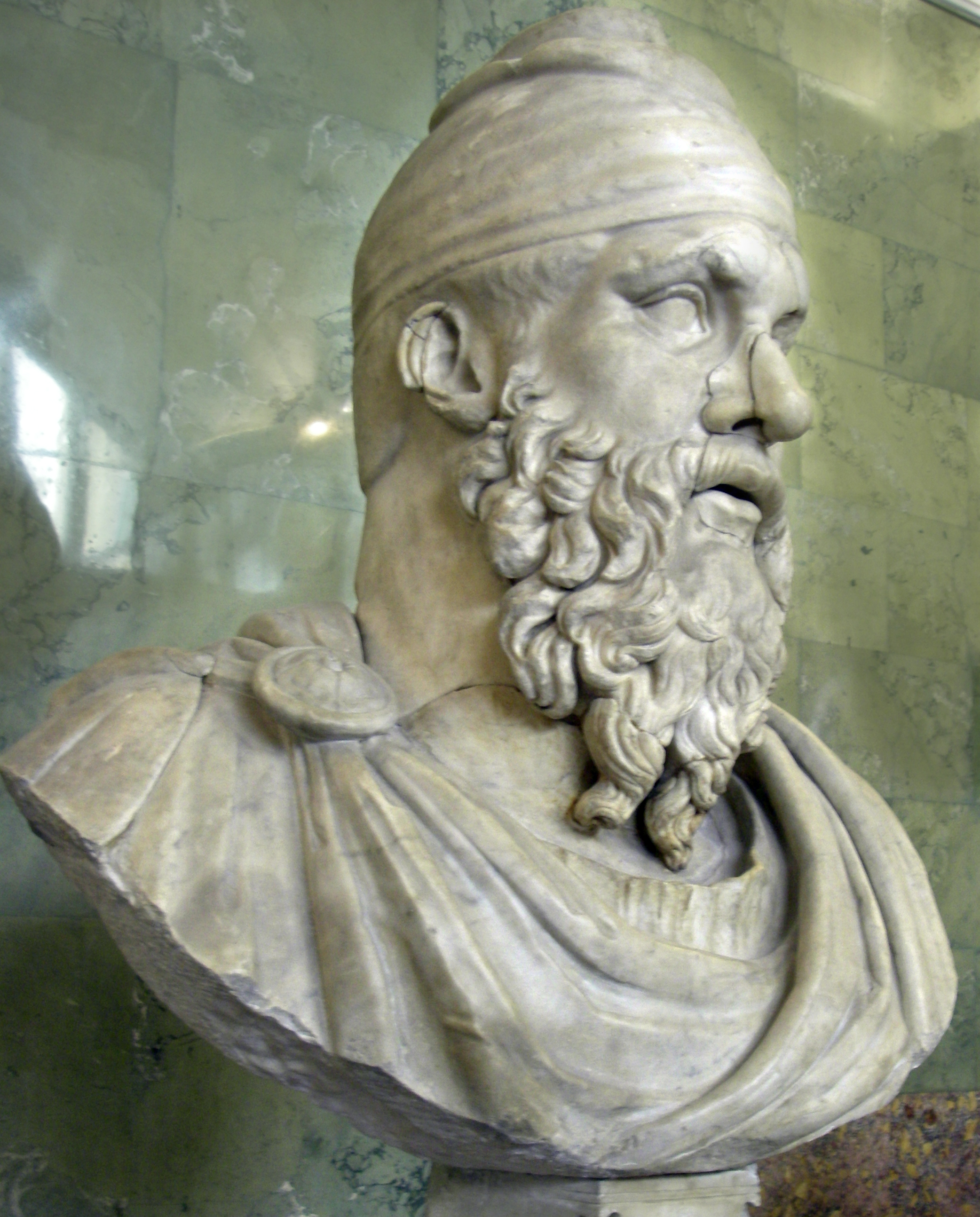 Fragment of a monumental statue of a Dacian prisoner from Trajan's Forum in Rome, Italy.